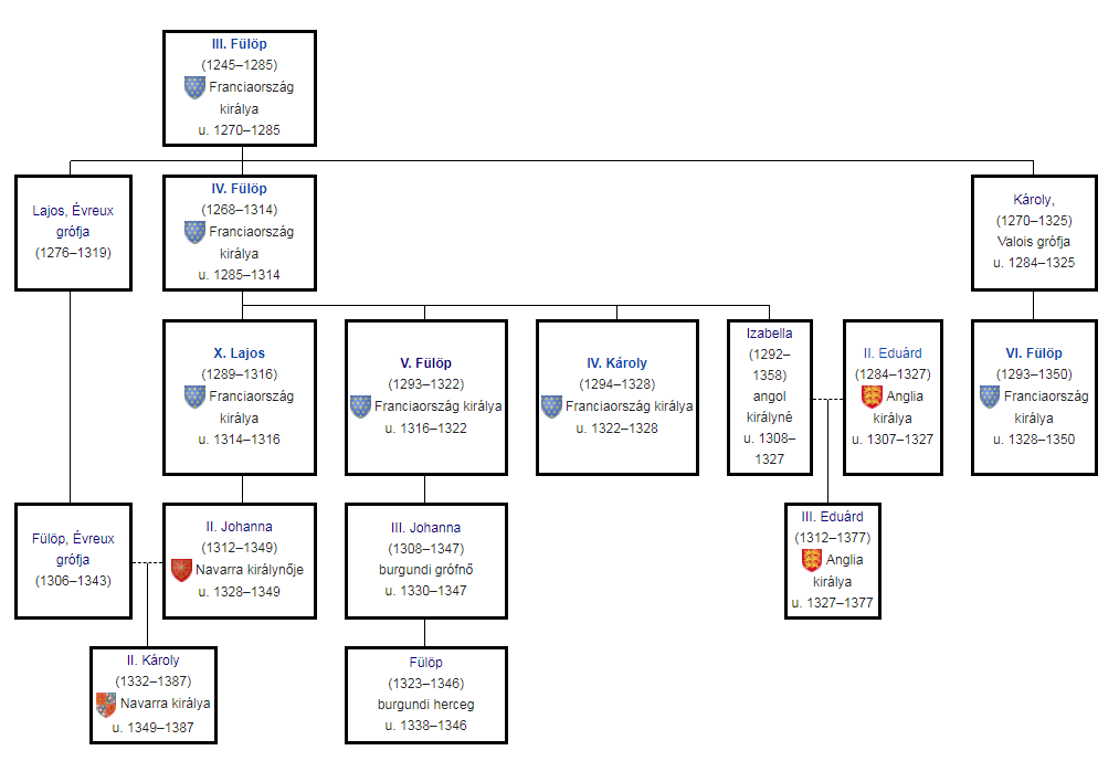 Family tree of French kings befor the Hundred Years' War